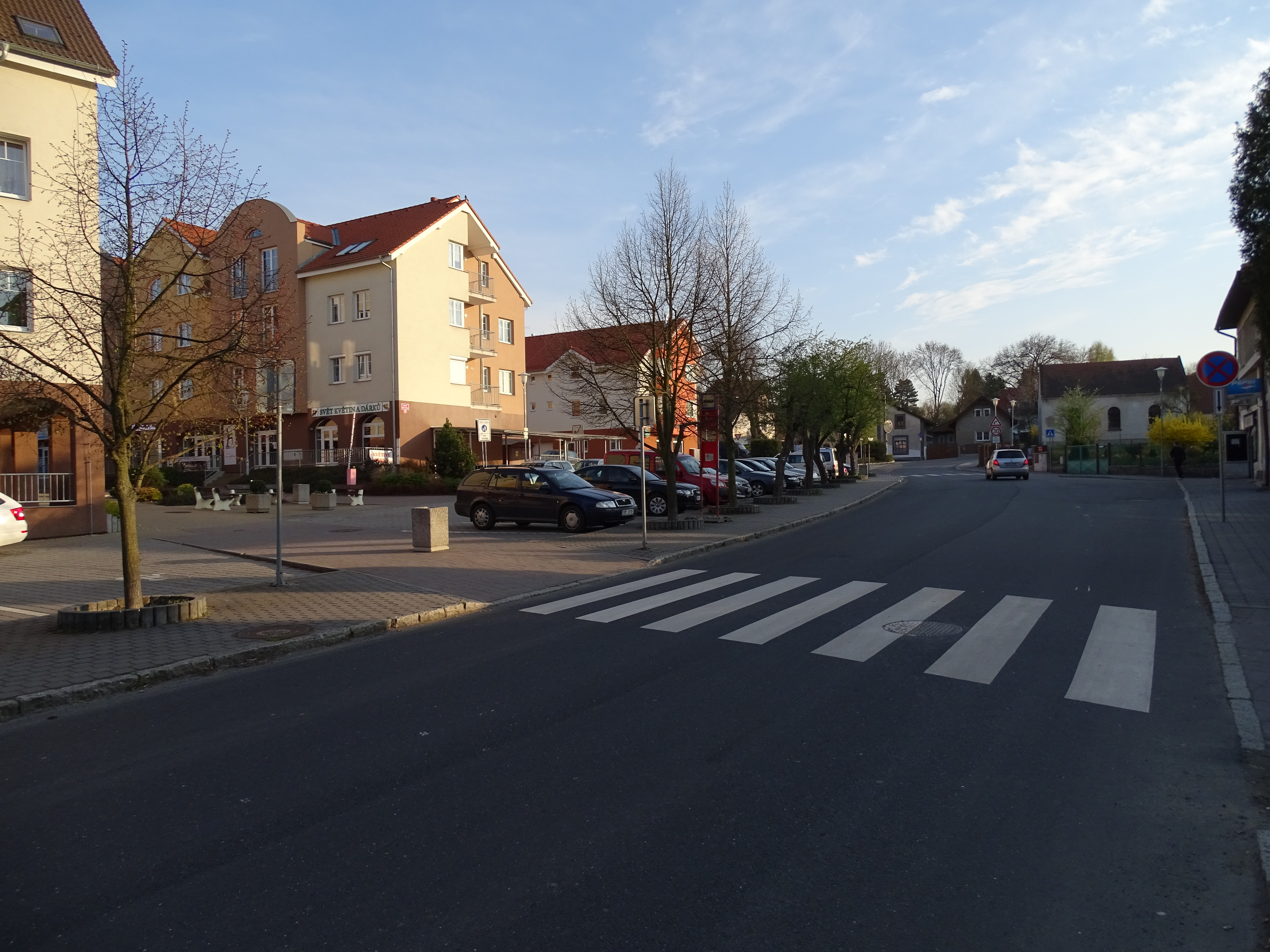 Strančice, Prague-East District, Central Bohemian Region, Czech Republic. Revoluční street, Náměstí Emila Kolbena, a bus stop.